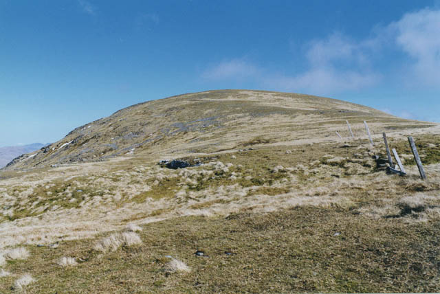 Western approach to Beinn Mhanach View from below the col between Beinn a' Chuirn and Beinn Mhanach, looking towards Beinn Mhanach's summit dome.